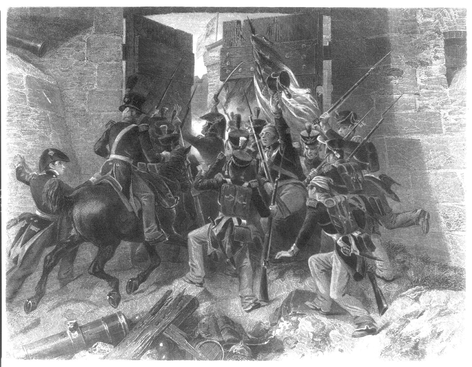 Title: Capture of Fort George (Col. Winfield Scott leading the attack) / Chappel. Abstract/medium: 1 print : steel engraving.